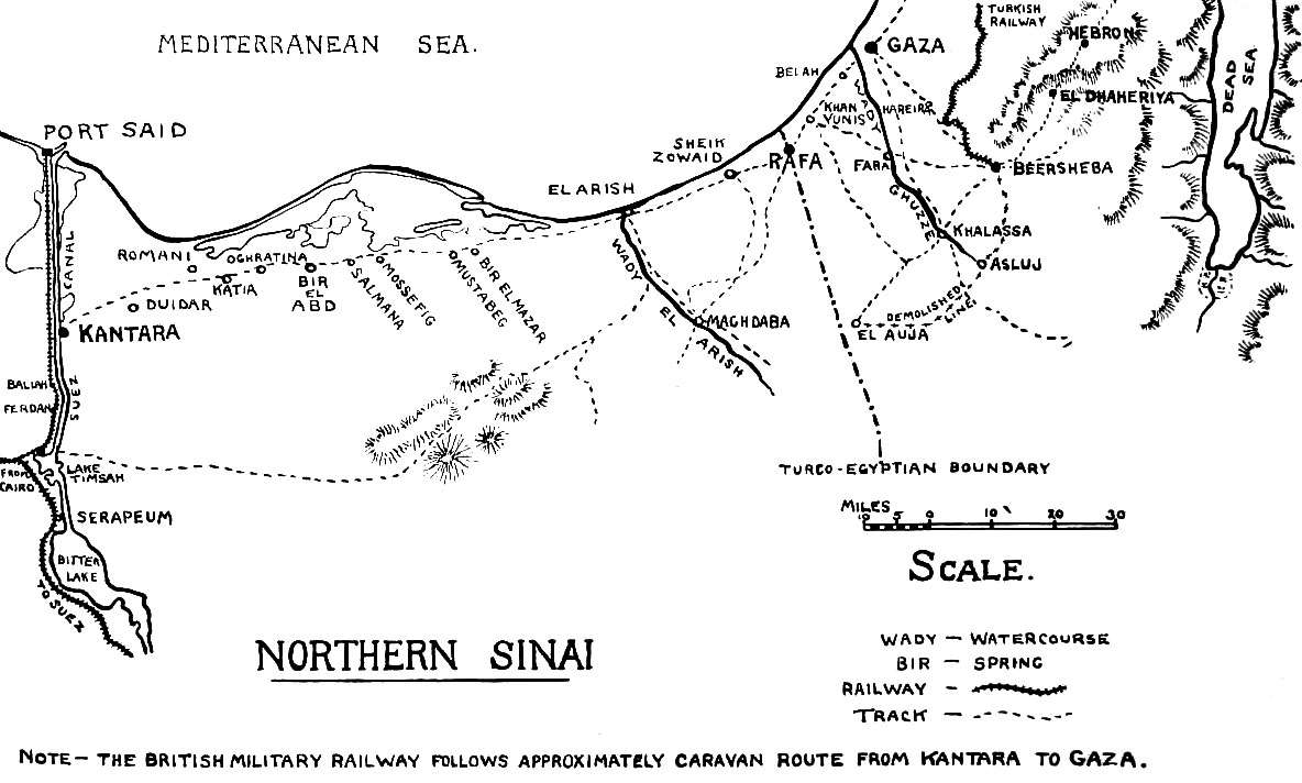 Map of northern Sinai and southern Palestine